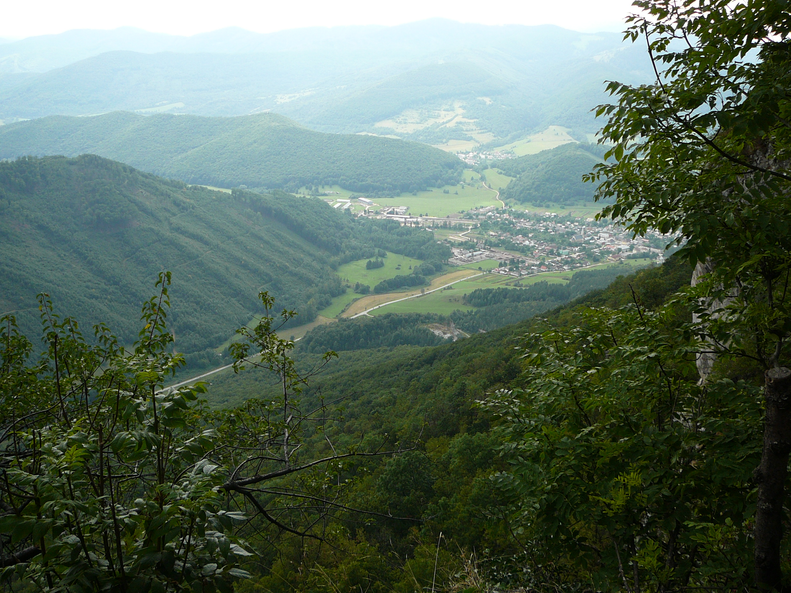 View to Muráň.